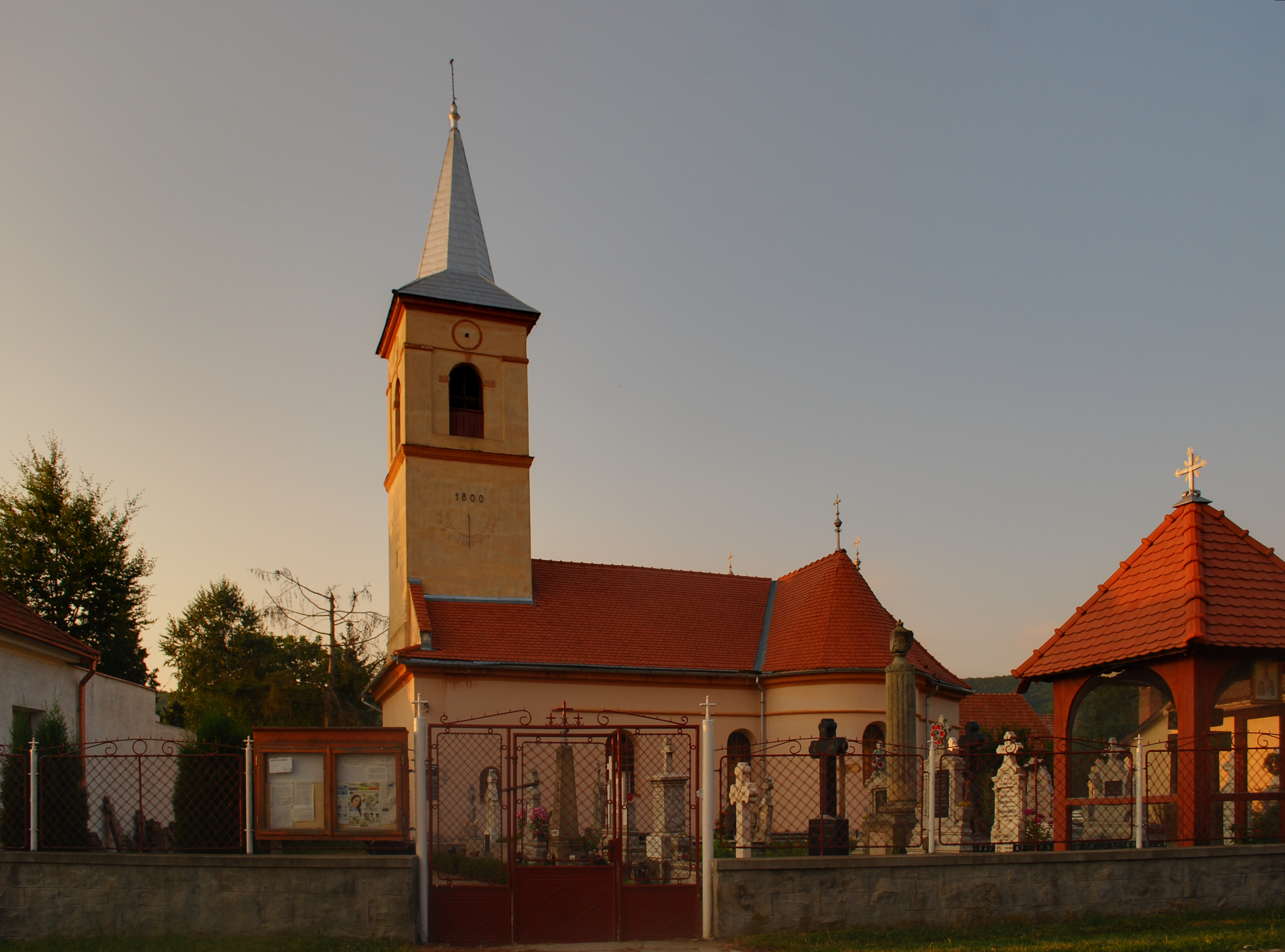 Saint Nicholas' church in Covasna, Covasna County, Romania